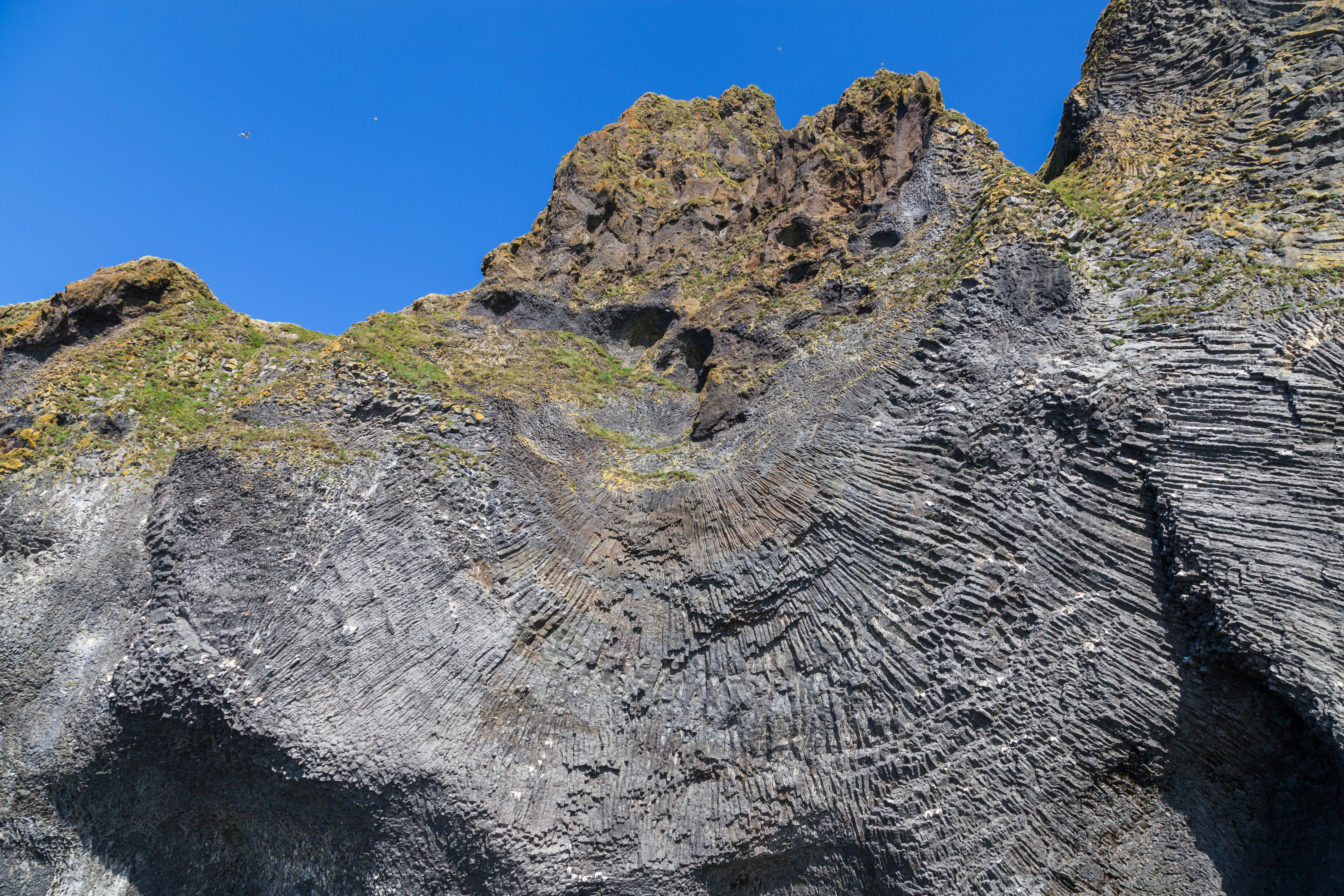 The Organ, cliffs of Heimaey, Westman Islands, Suðurland, Iceland